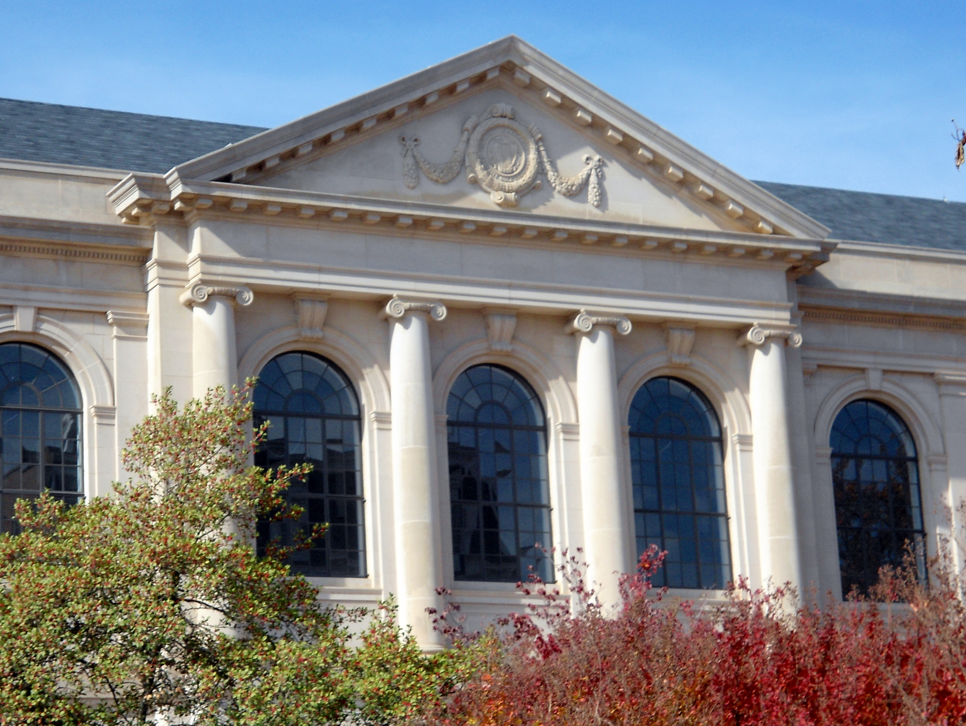 Facade of Vol Walker Hall in the historic core of the University of Arkansas campus, Fayetteville, Arkansas.